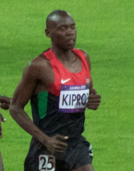 Men's 10000m Final - Wilson Kiprop